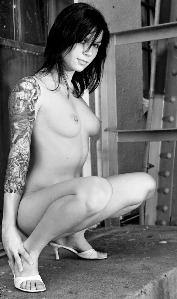 In Black and White